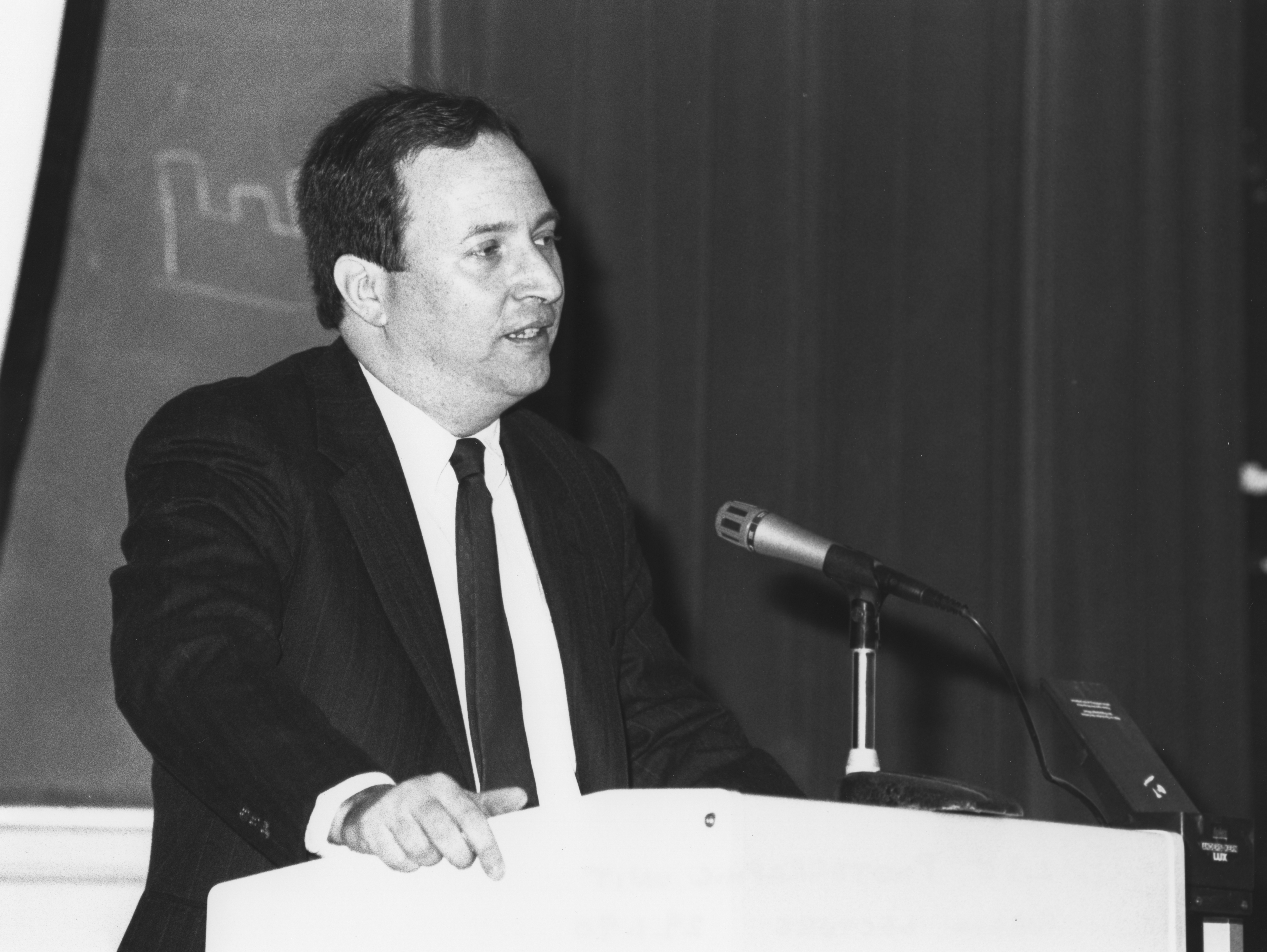 Nathaniel Ropes Professor of Political Economy, Harvard University giving an LSE public lecture, 'Governance and Growth, January 1990 IMAGELIBRARY/264 Persistent URL